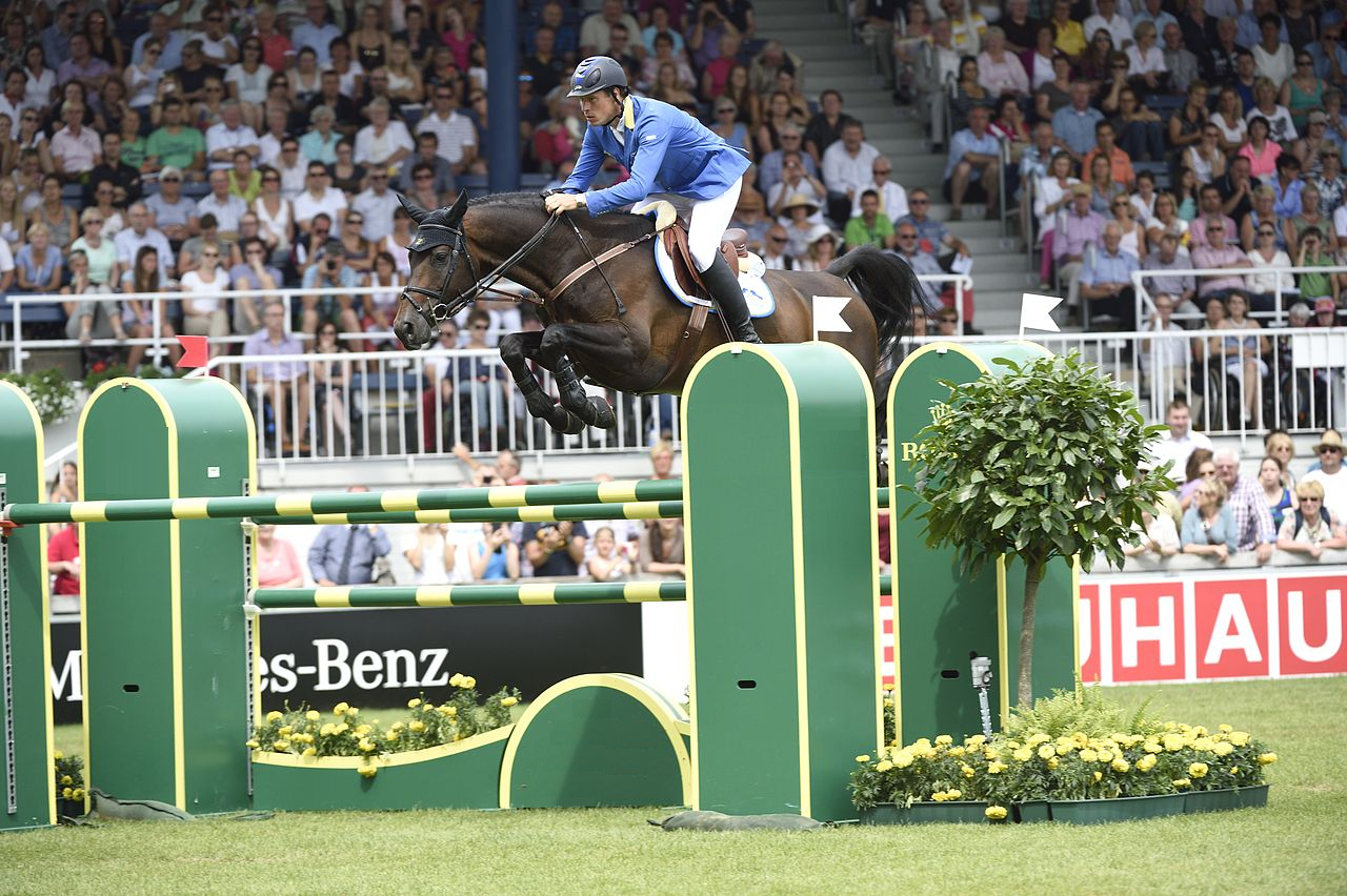 Christian Ahlmann riding Codex One, winner of the Rolex Grand Prix at CHIO Aachen 2014